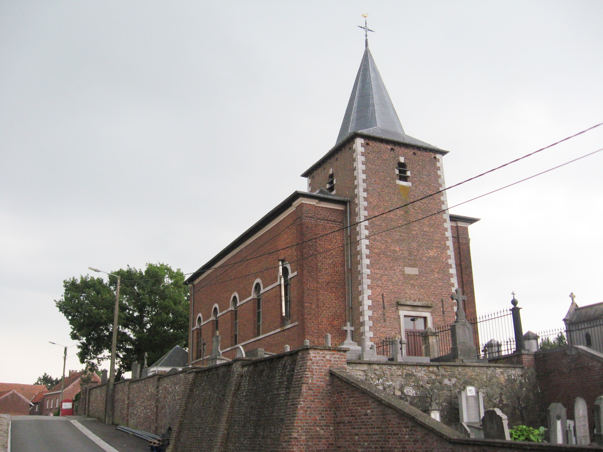 Church of Saint Martin in Vechmaal, Heers, Limburg, Belgium